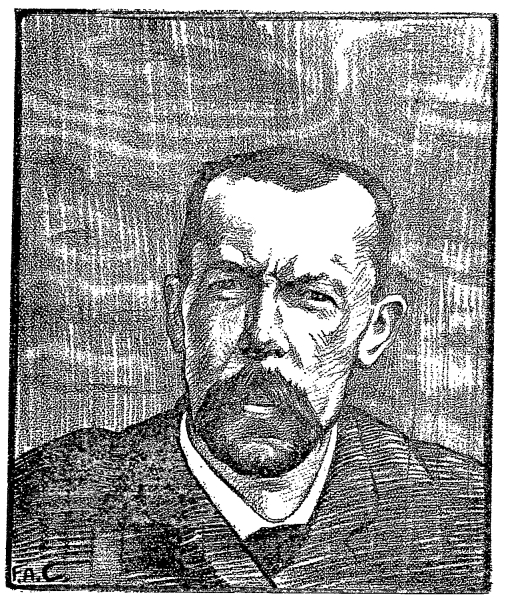 French writer Francis Poictevin (1864-1937) by Frédéric-Auguste Cazals (1865-1941)